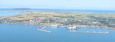 Municilality of Ørland, Norway. Seen towards west, city of Brekstad in front